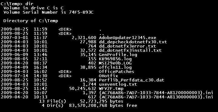 Computer directory listing in a Microsoft Windows command shell.